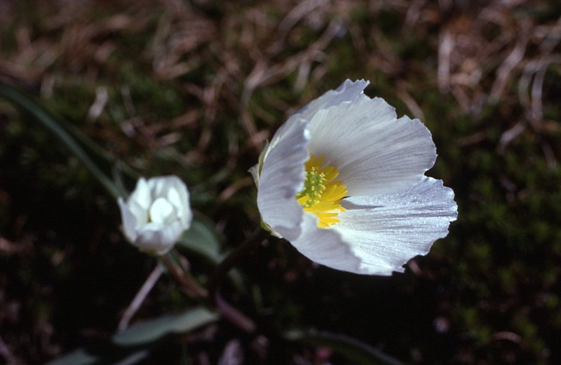 Ranunculus pyrenaeus subsp. plantagineus (= Ranunculus kuepferi) in the Alpes Maritimes